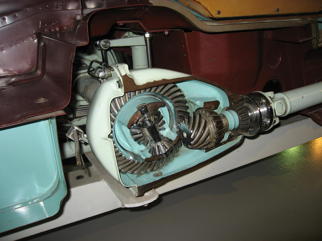 A cut up mg i have more pictures of this .at the British motoring heritage museum gaydon .